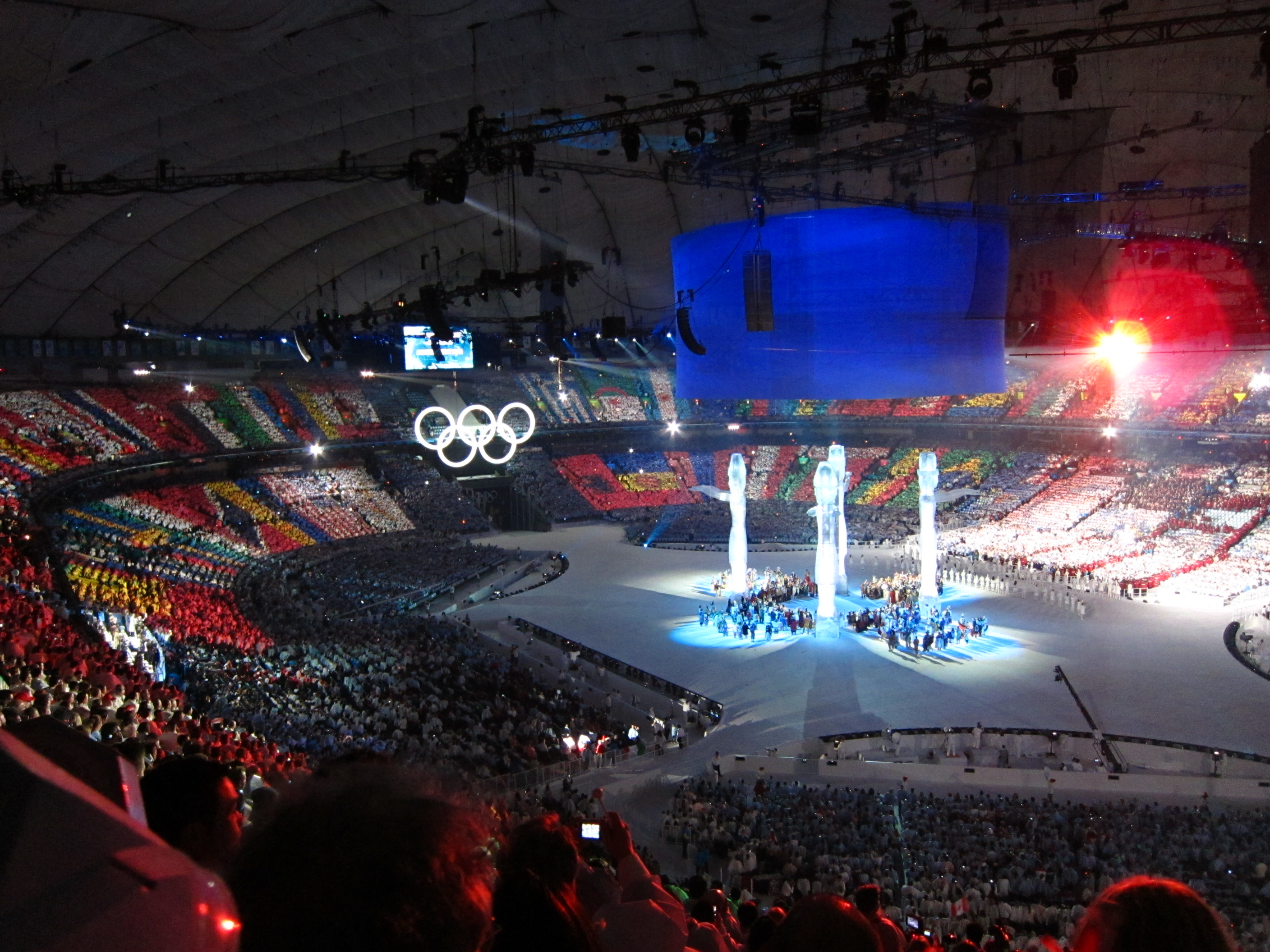 Vancouver 2010 Winter Olympics